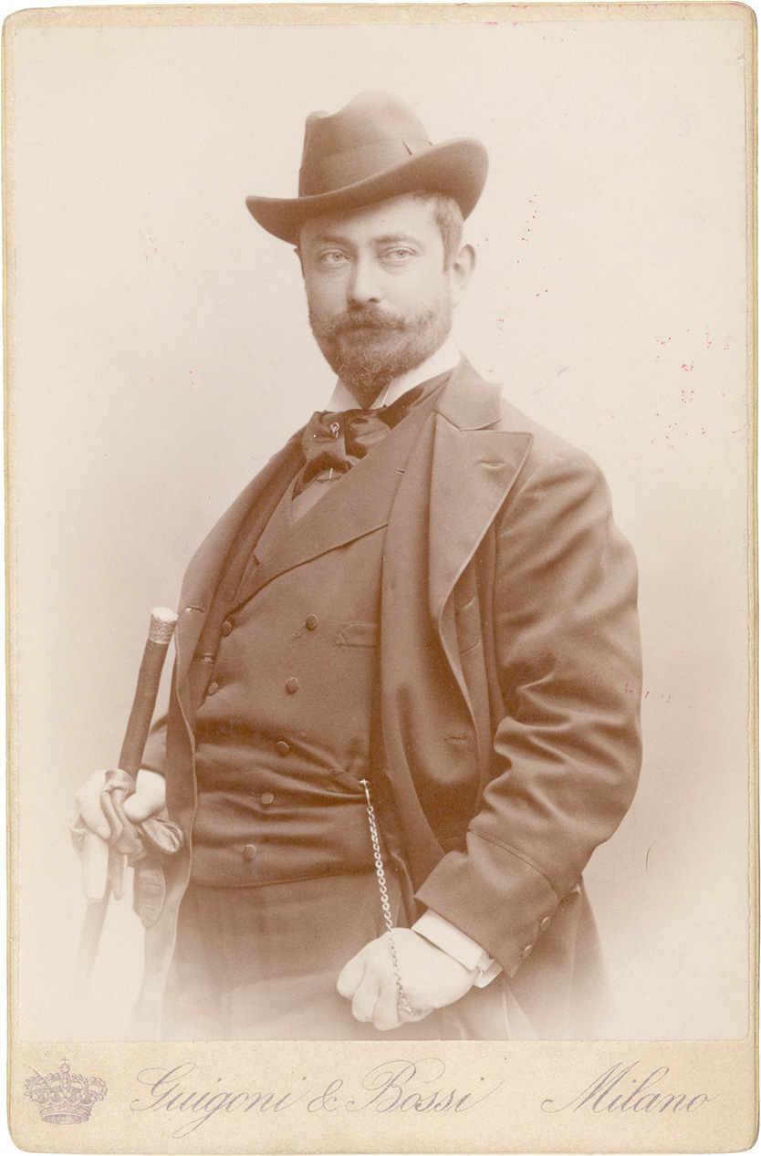 Portrait of Luigi Illica, librettist (1857-1919). Photo by Guigoni & Bossi, Milano, before 1919.